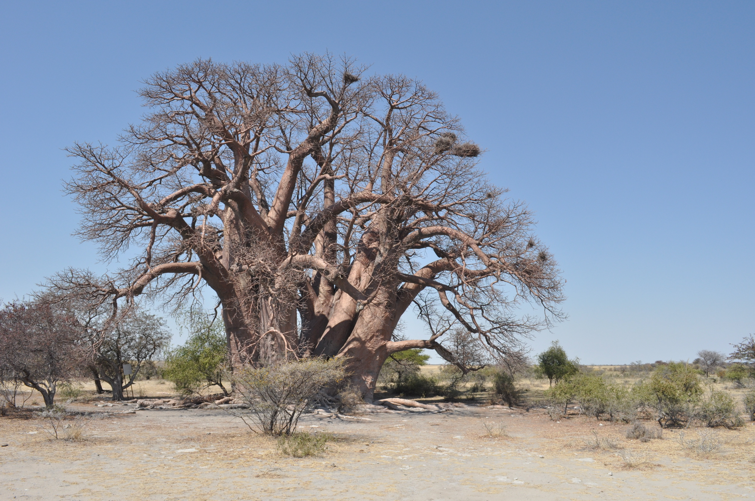 The Seven Sisters, Xaugam or (James) Chapman's baobab photographed in 2010. It was gazetted as a National Monument in 2006, but its constituent trunks collapsed outward in 2016. By 2019 one trunk was still showing signs of life.